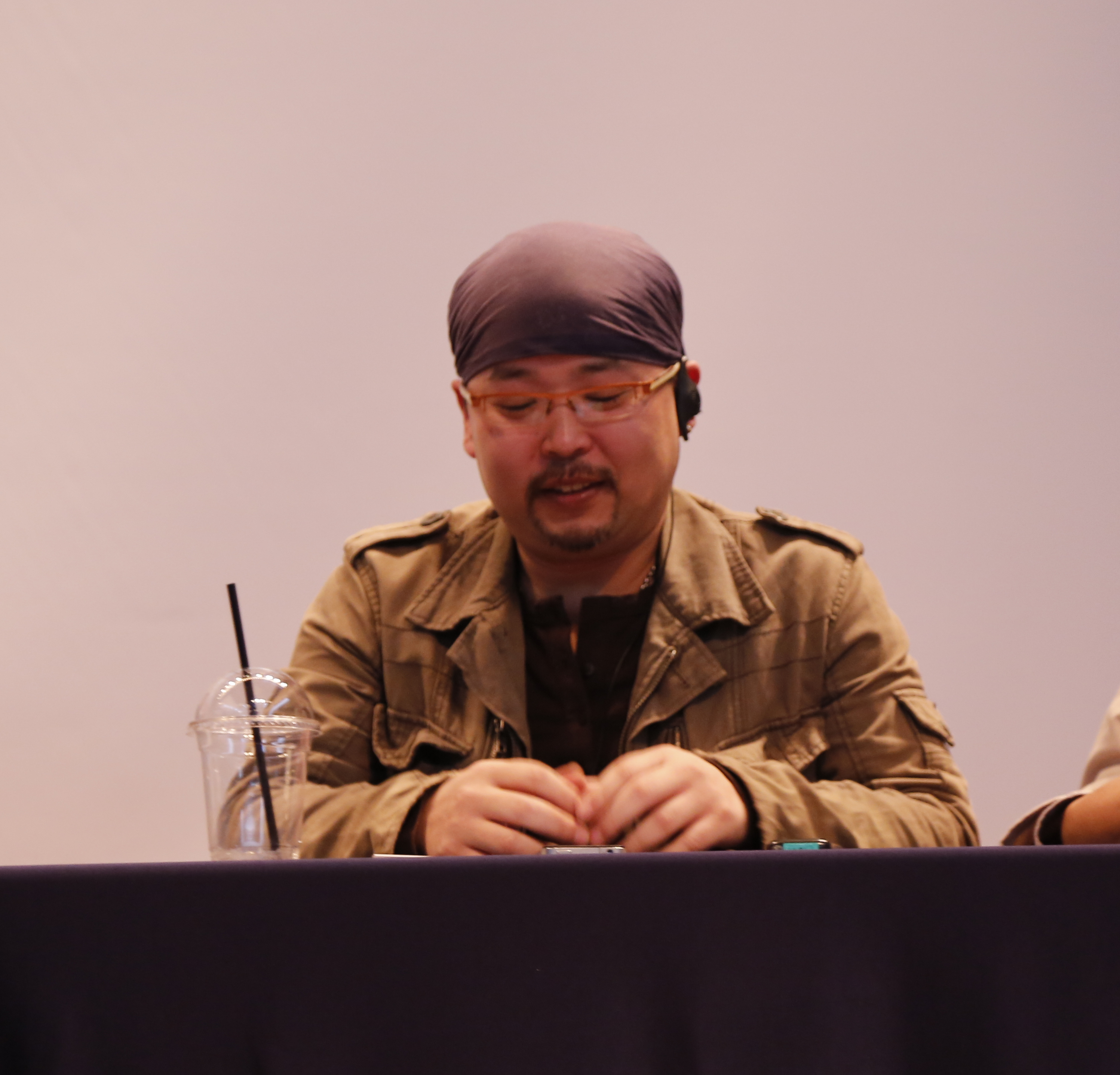 2015.10.16. Creative Commons Global Summit 2015